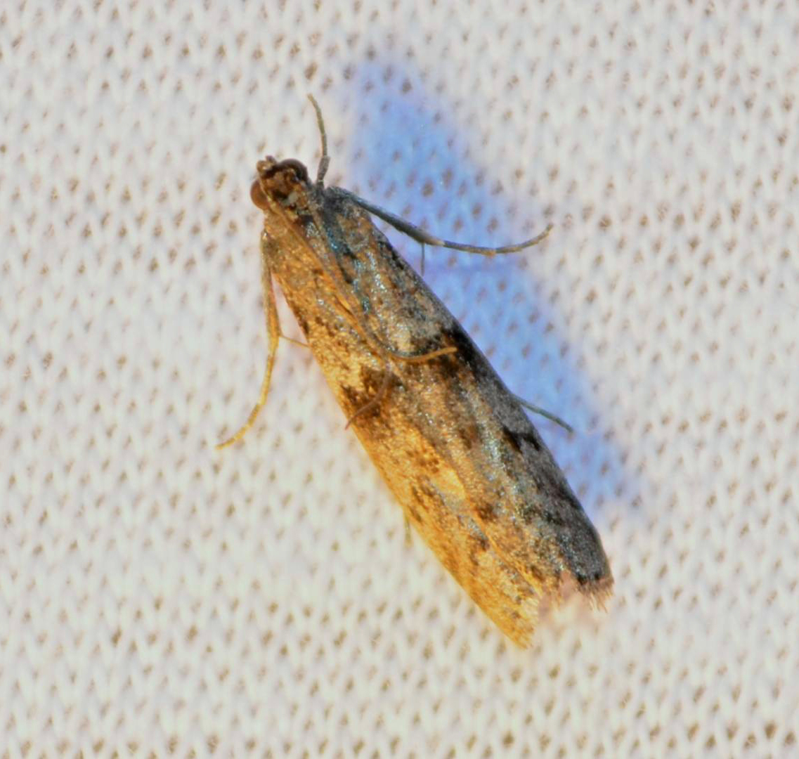 Mothing Night in St. Louis 9/26/13 (CM) ID thanks to Richard Brown